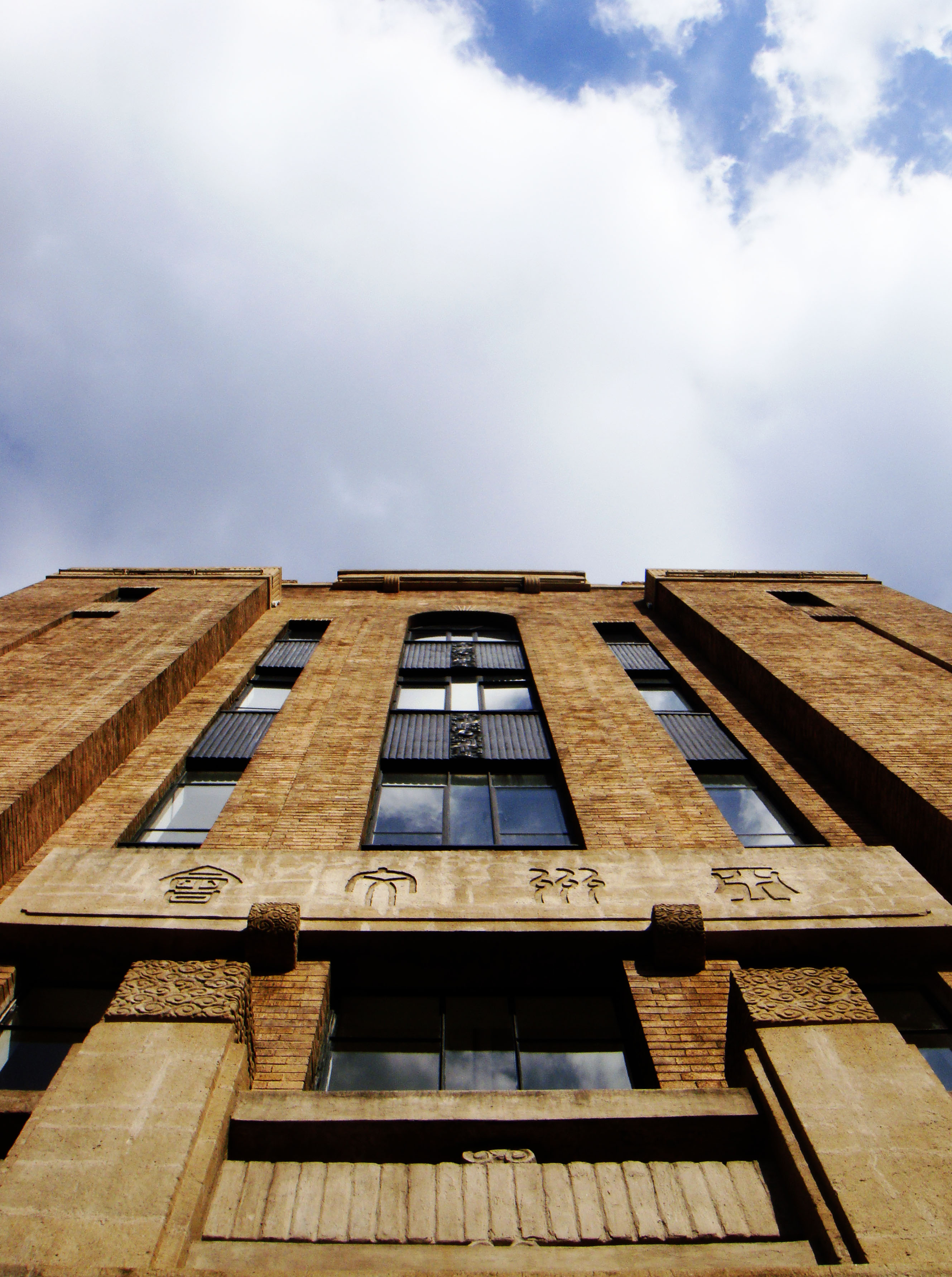 North China Branch of the Royal Asiatic Society' Building